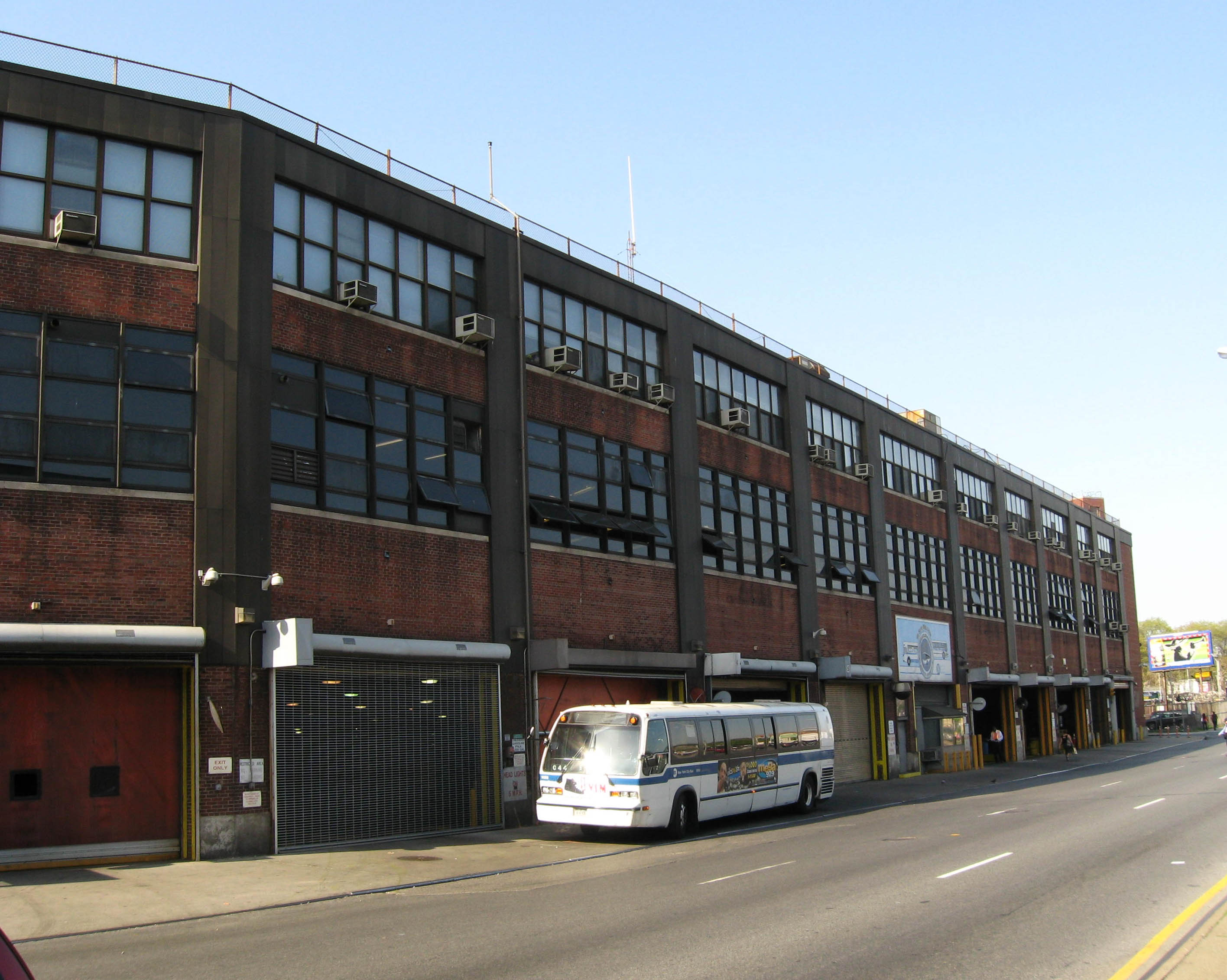 Looking northeast at East New York bus depot of MTA on a sunny spring afternoon with the Jamaica Avenue side in shadow.